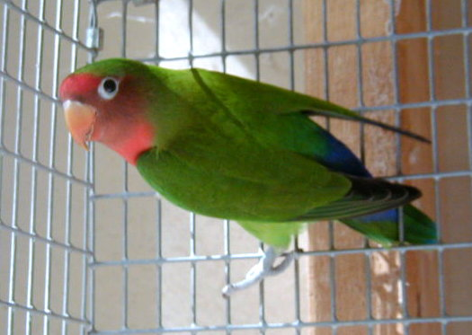 A pet hybrid lovebird